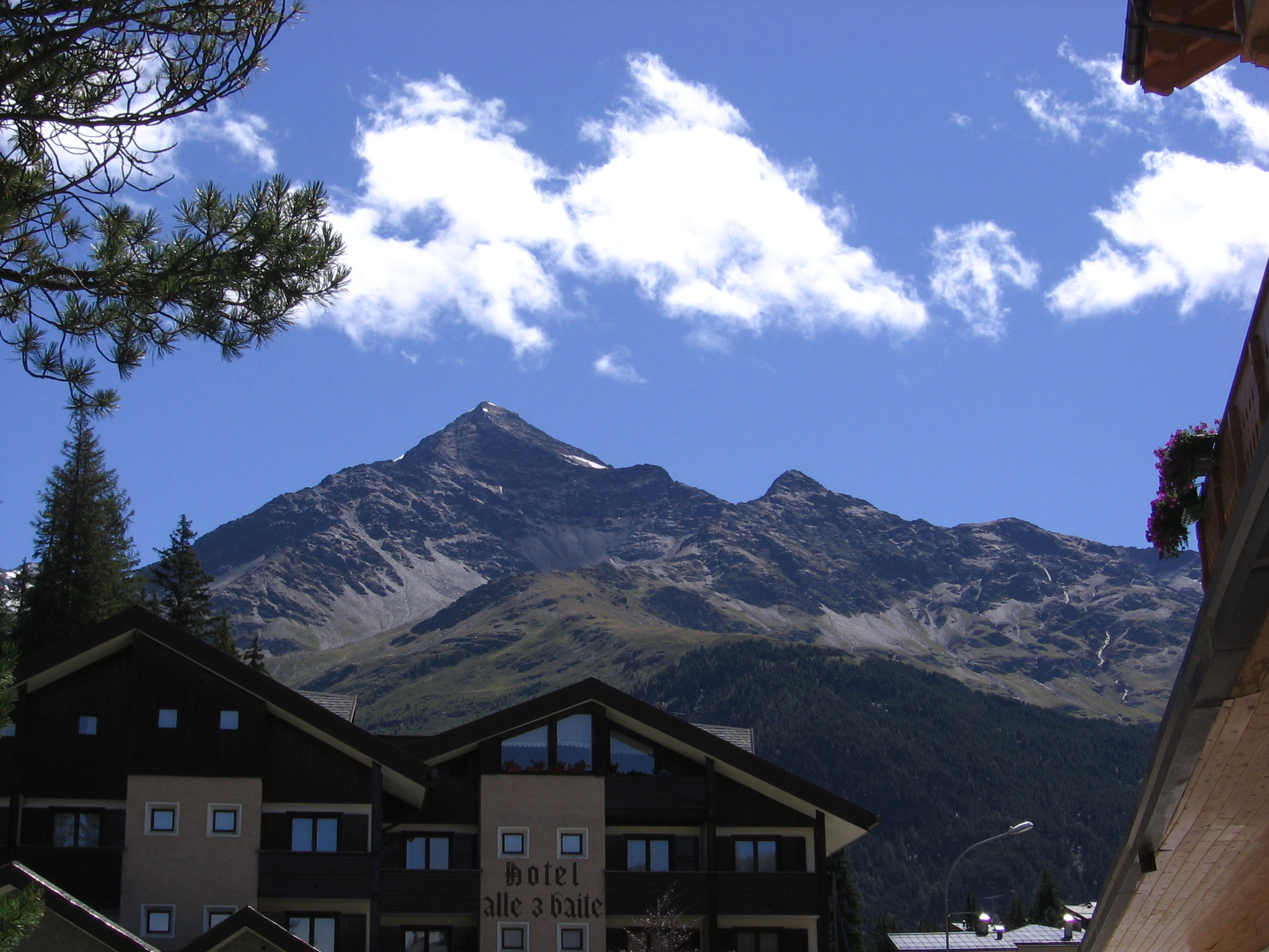 Hotel Alle Tre Baite ("Three Shelters Hotel"), Santa Caterina di Valfurva, Lombardia, Italy. In the background the mountain Pizzo Tresero (3594 metres)